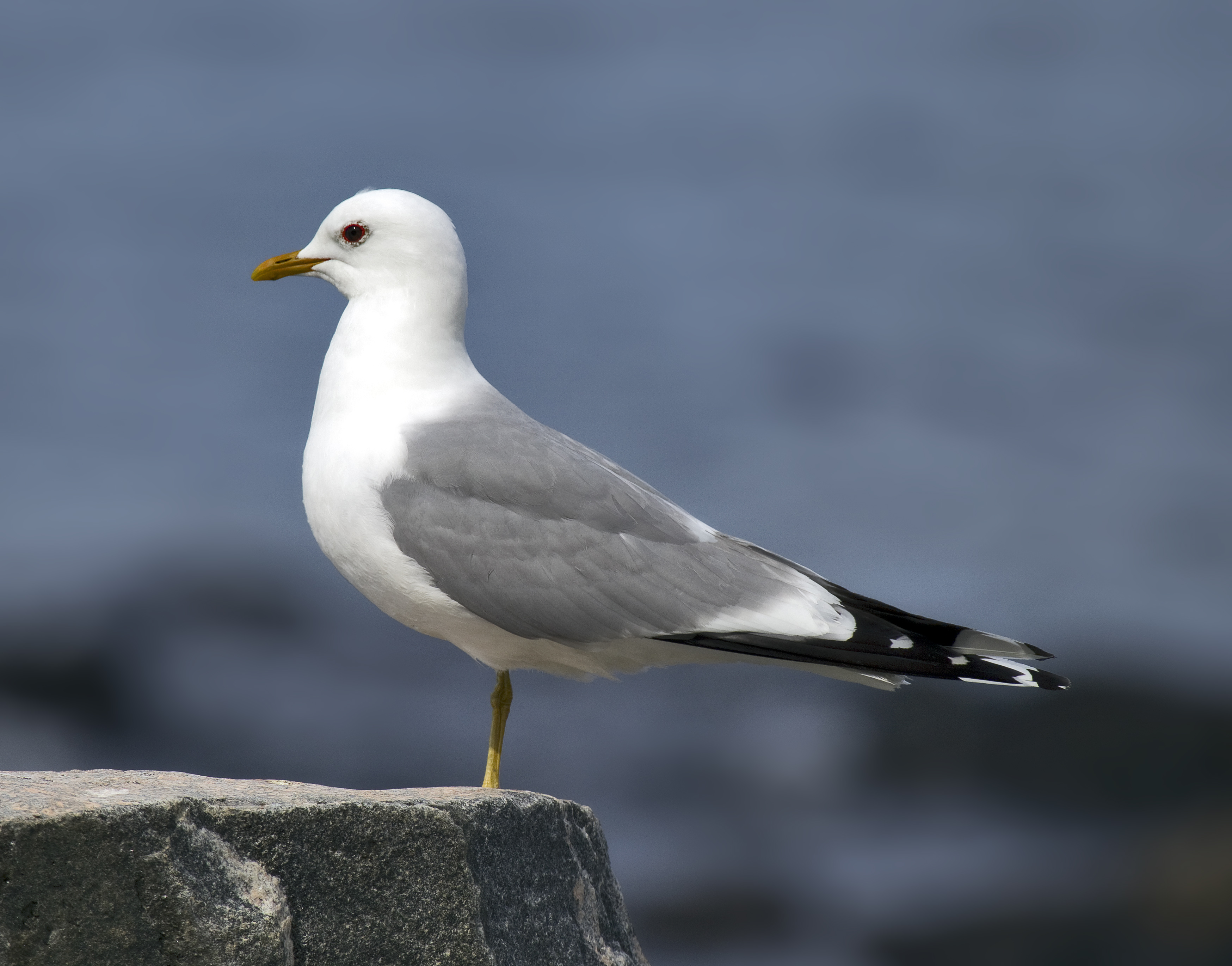 Common Gull; it is a Common Gull and not a Mew Gull; the picture was taken in Norway.